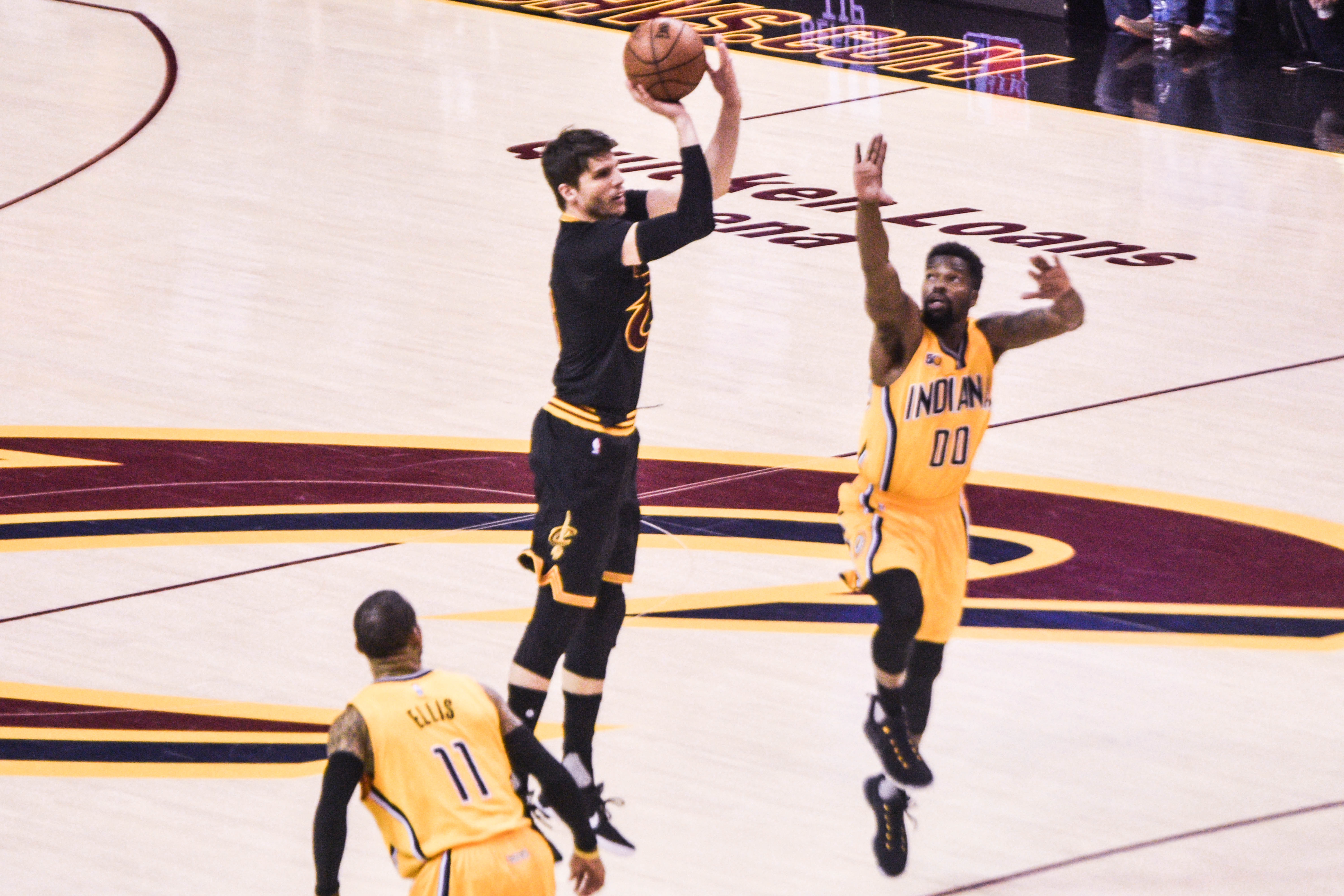 Kyle Korver of the Cleveland Cavaliers shooting over Aaron Brooks of the Indiana Pacers with Monta Ellis in the foreground